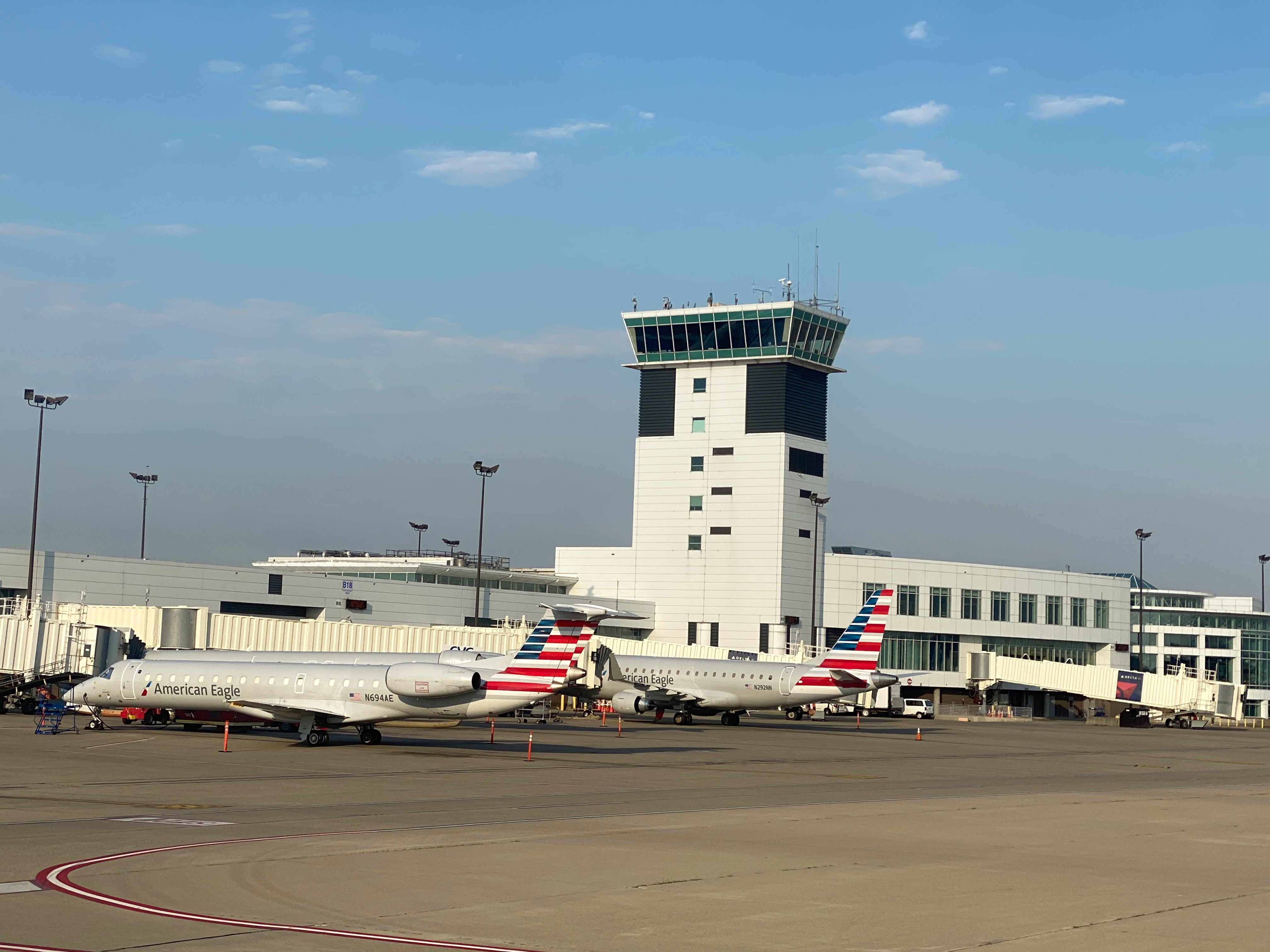 Traffic control tower at CVG.